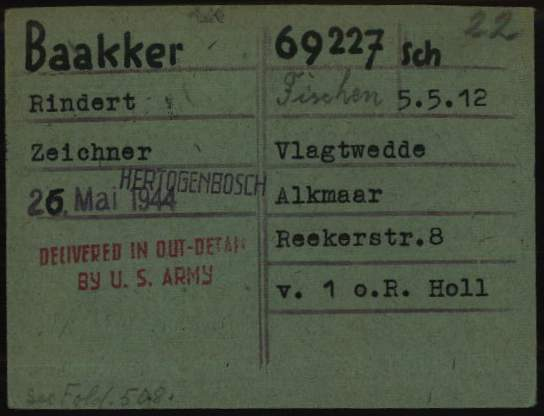 Rindert van Zinderen Bakker's prisoner registry card at Dachau Nazi Concentration Camp Red stamp means he was liberated by the U. S. Army from a Dachau sub-camp (out-detail)